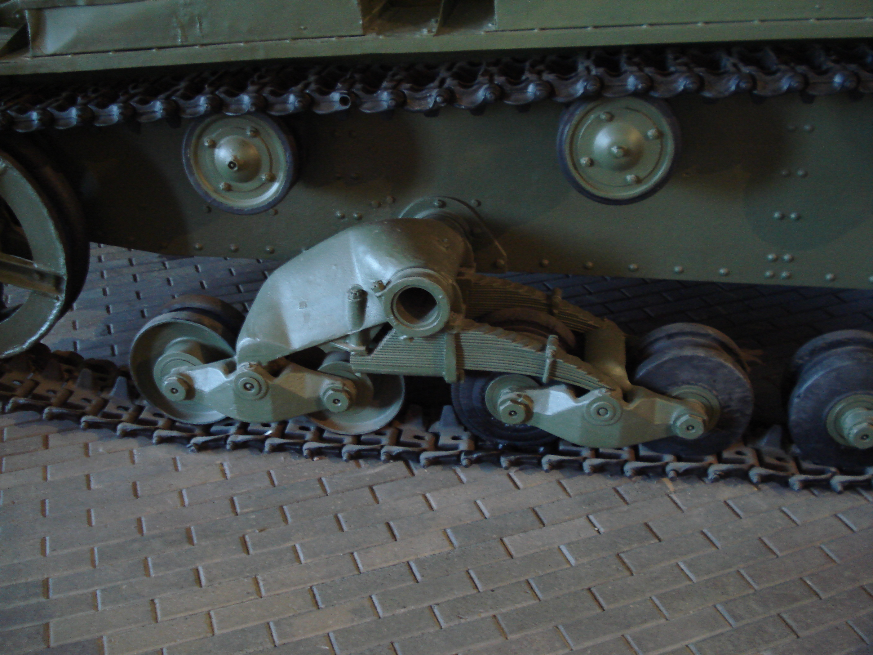 Vickers 6-ton tank, manufactured in Britain and purchased by Finland, displayed in Manege Military Museum in Suomenlinna fortress, Helsinki. Photo taken on June 10, 2006. Detailed view of suspension. Source: Photo by me, User:Balcer.